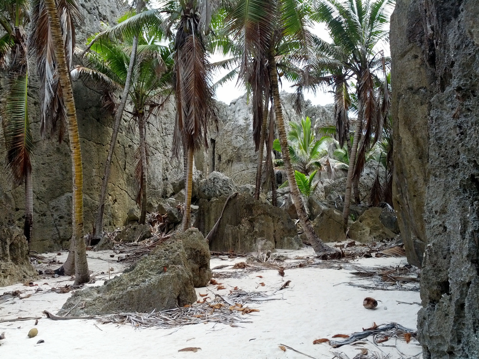 Secluded beach with coconut trees at Togo Chasm, Niue.